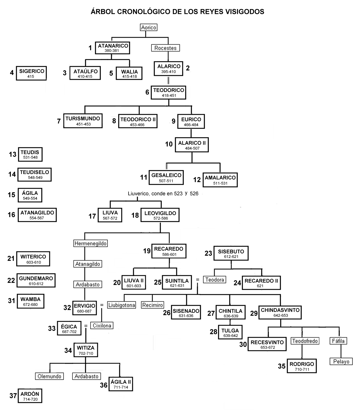 The chronological tree of the Visigoths Kingdom